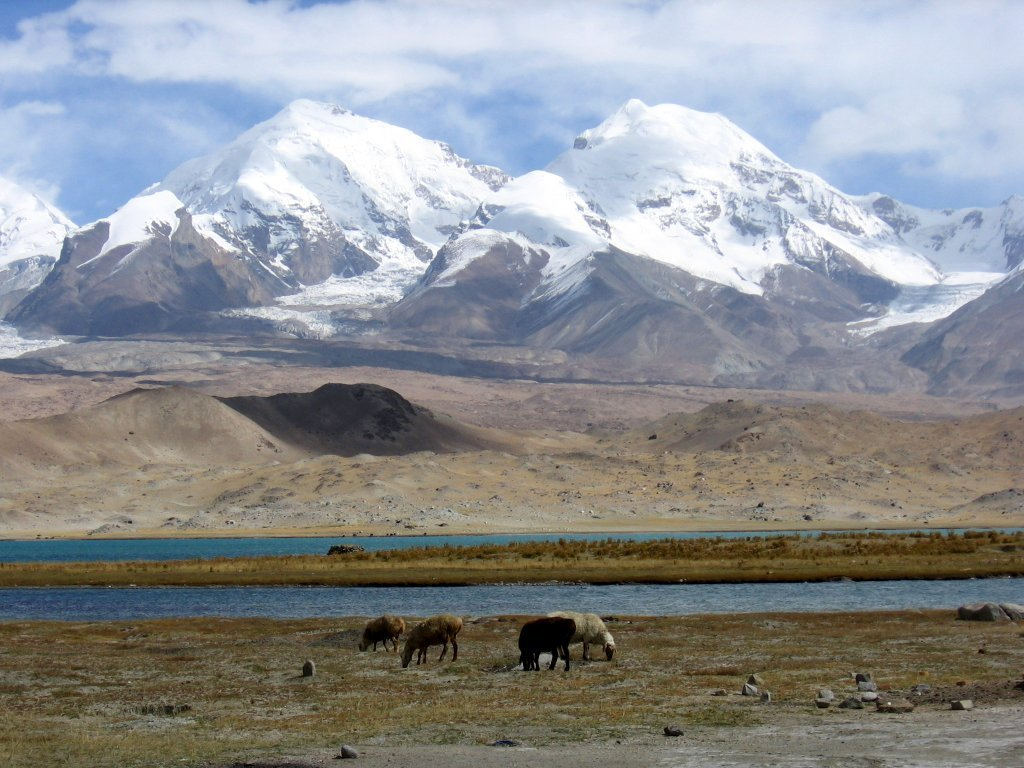 Mt. Kongur in Karakul lake, close to Karakoram Highway in Xinjiang province (China).